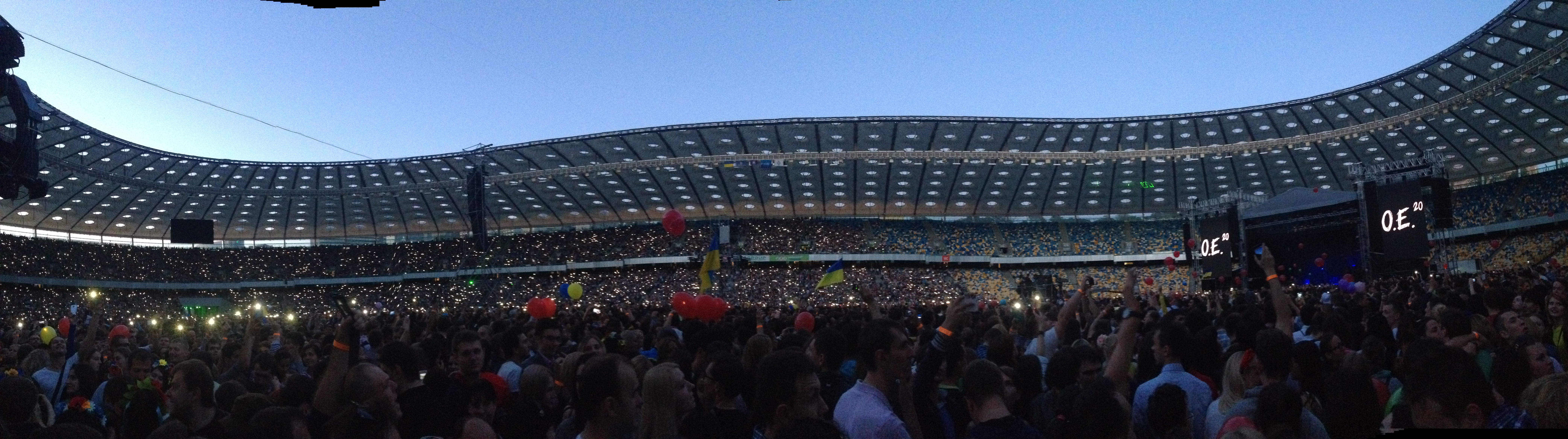 Okean Elzy at NSC Olimpiyskiy